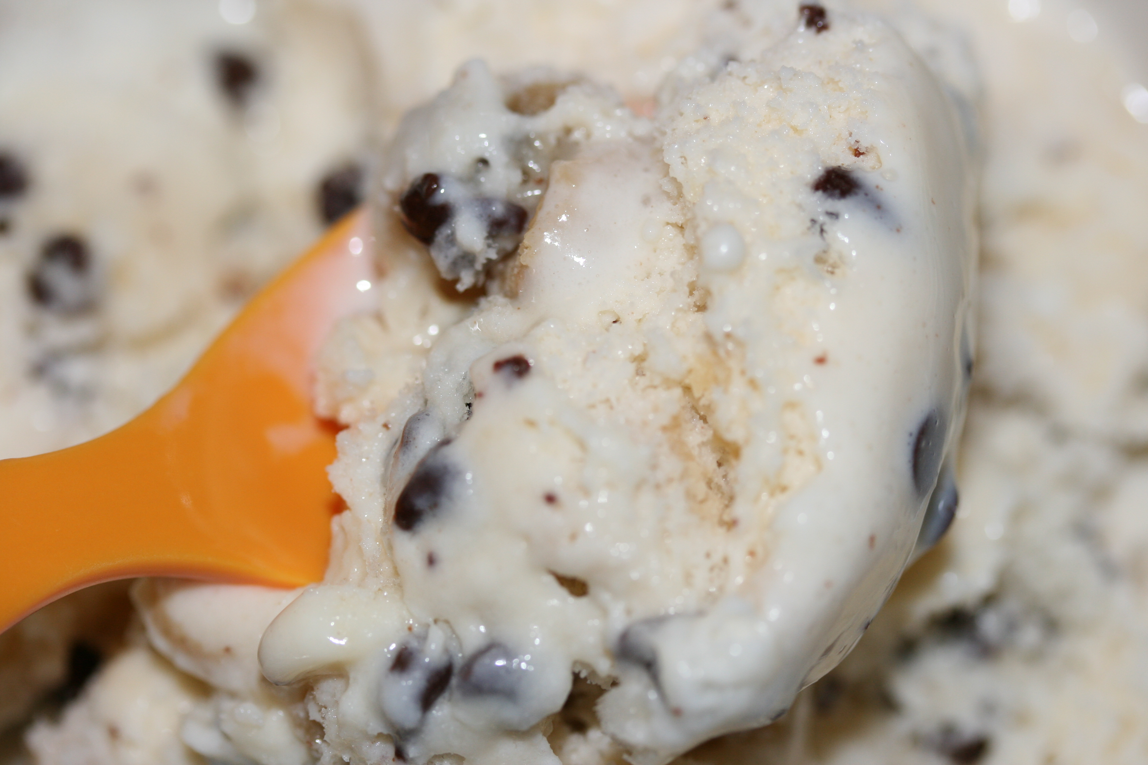 Project 366 2008 Feb 10 - 40/366. Not my favorite ice cream but tasty nonetheless.